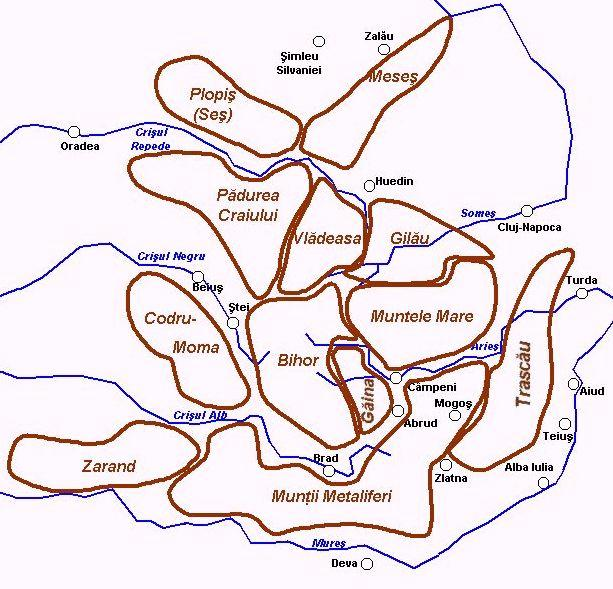 Subdivisions of the Apuseni Mountains (Romanian Western Carpathian Mountains), Romania